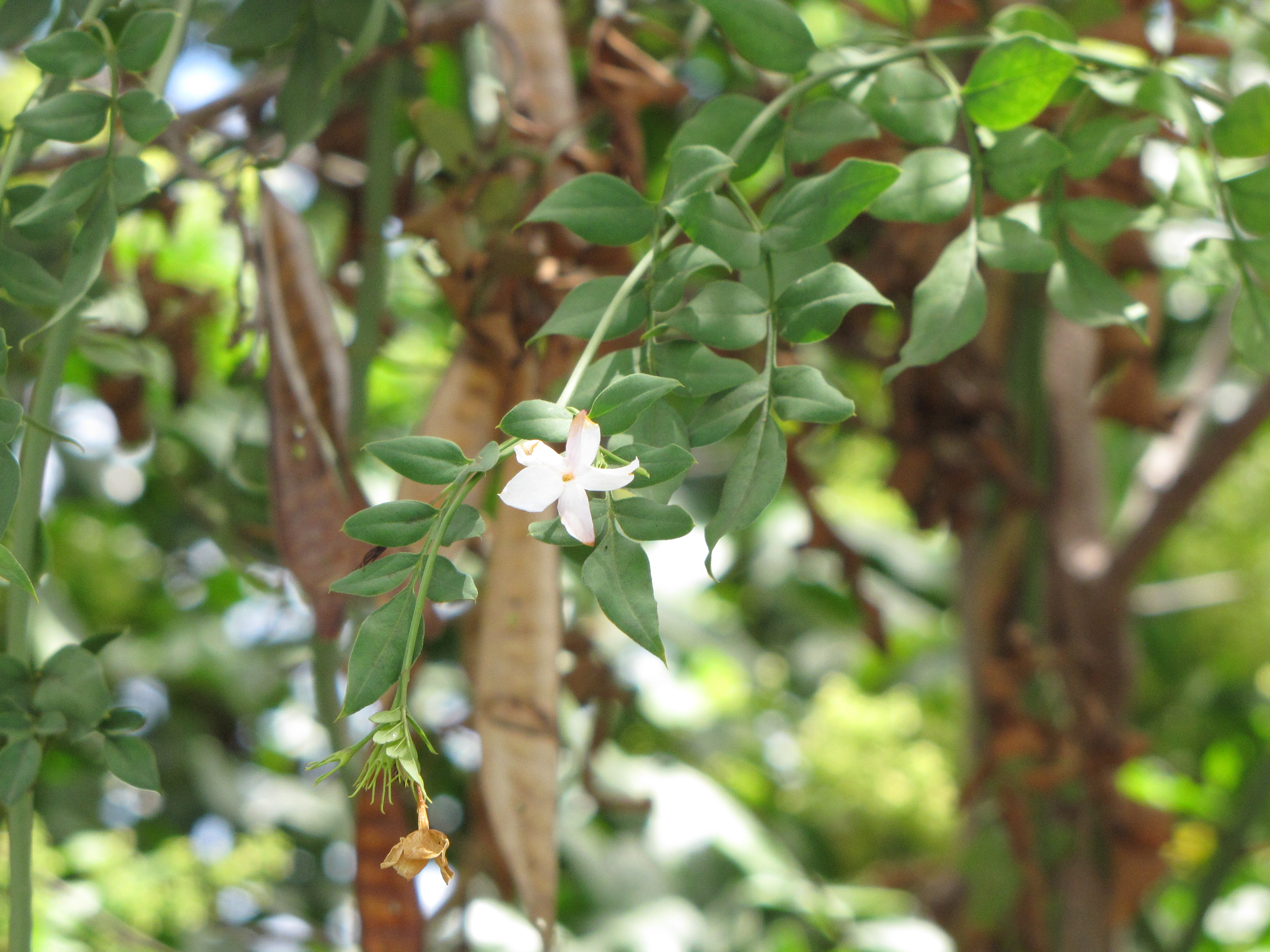 Spanish jasmine (Jasminum grandiflorum) Flowers and leaves at Wailuku, Maui.